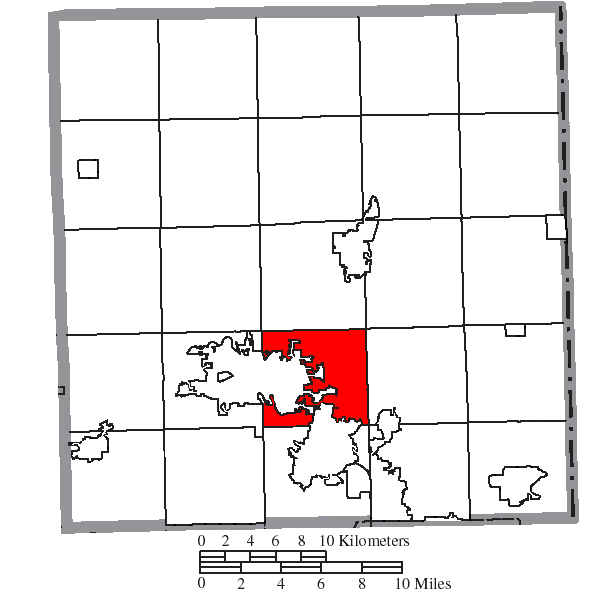 Map of the municipal and township boundaries of Trumbull County, Ohio, United States, as of the 2000 census, with the location of Howland Township highlighted. Township borders are shown only in unincorporated areas in order to differentiate incorporated and unincorporated areas more clearly.